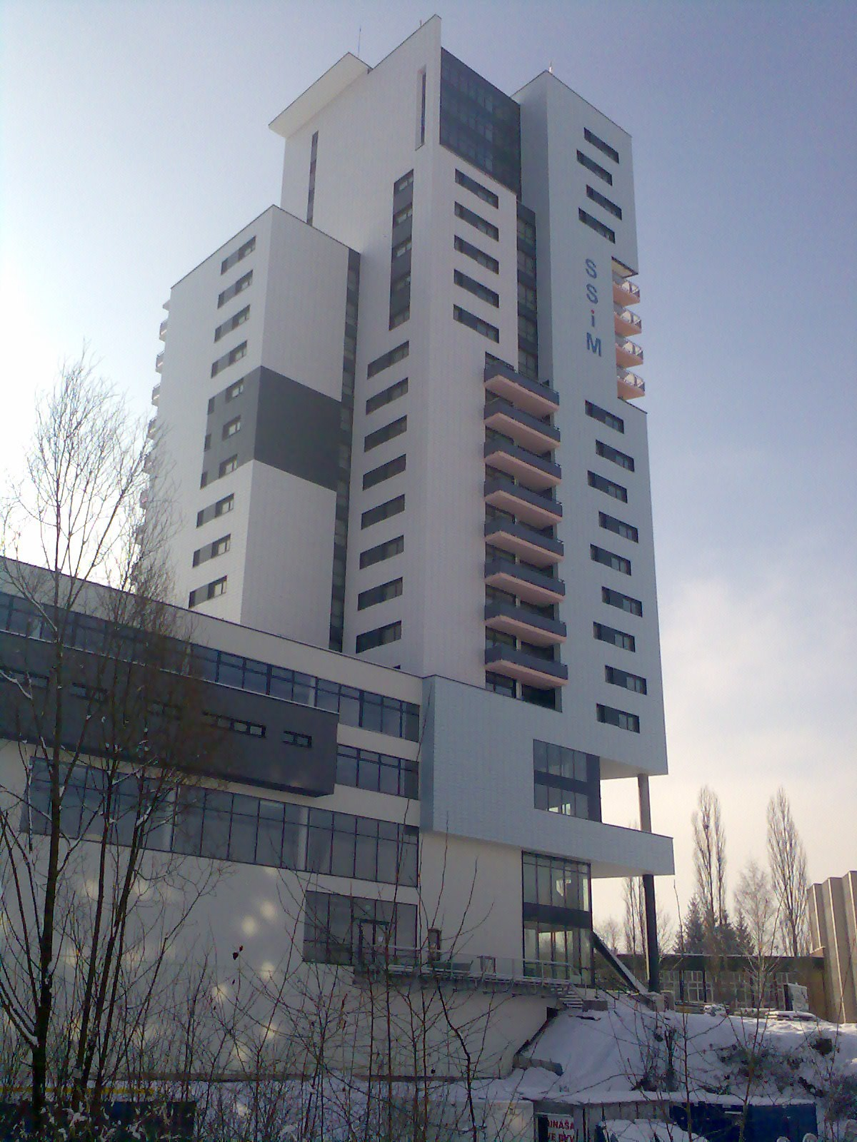 Building Europalace